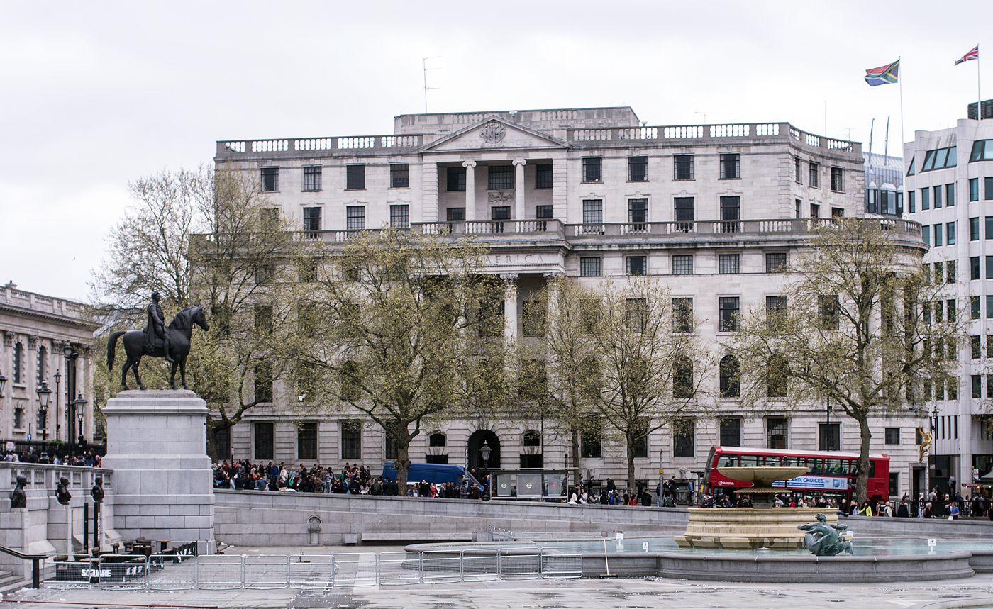 South Africa House, Trafalgar Square